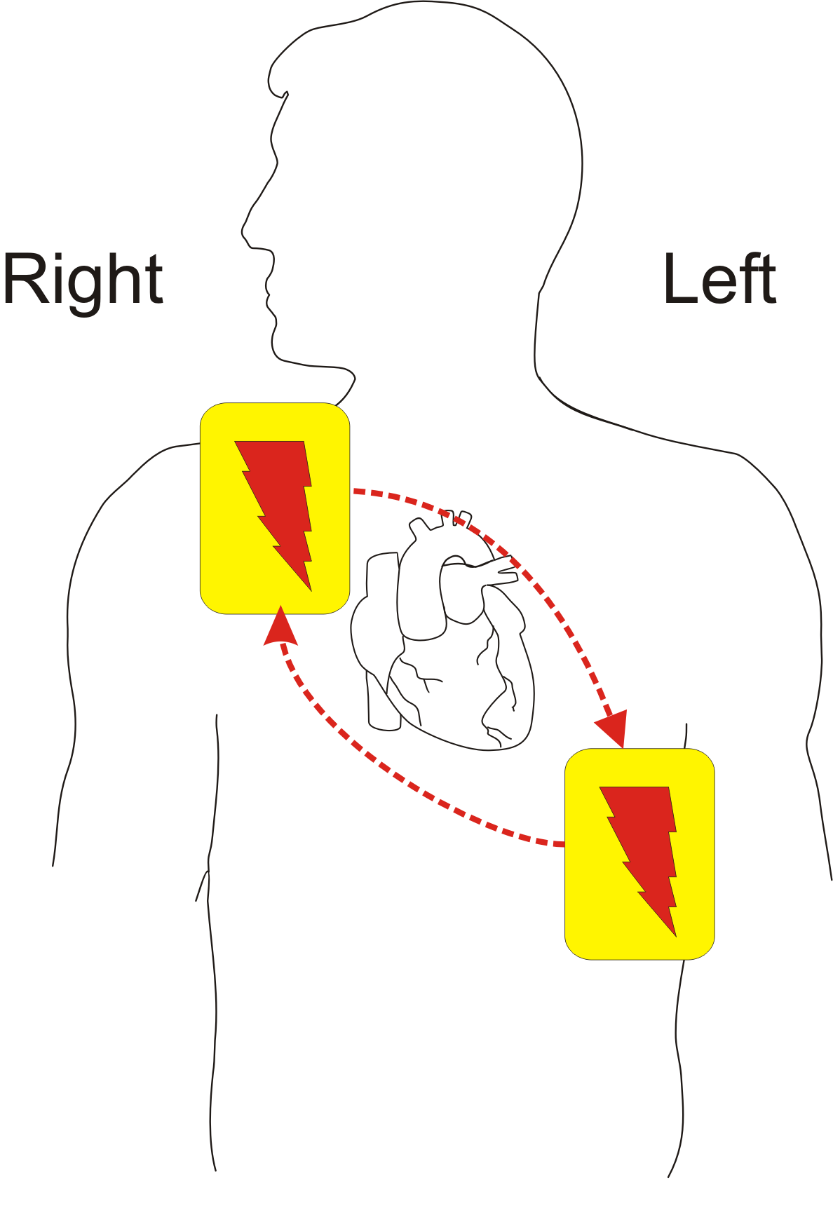 Graphic visualising placement of debrillator pads